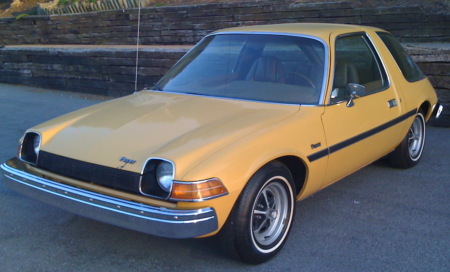 1975 AMC Pacer coupe, by American Motors Corporation. This is a base model finished in "Mellow Yellow" (paint code: E9)